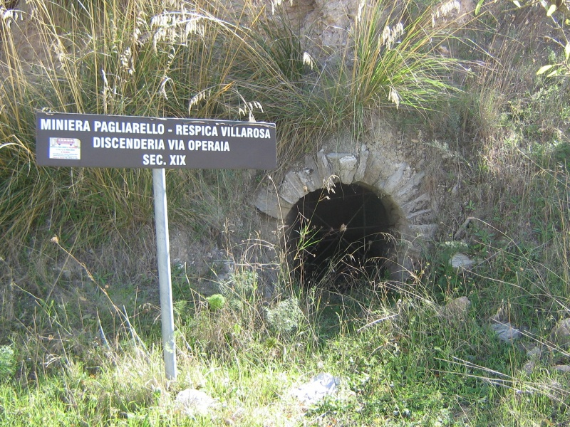 Miniera Respica-Pagliarello (Villarosa) (3).jpg (file)